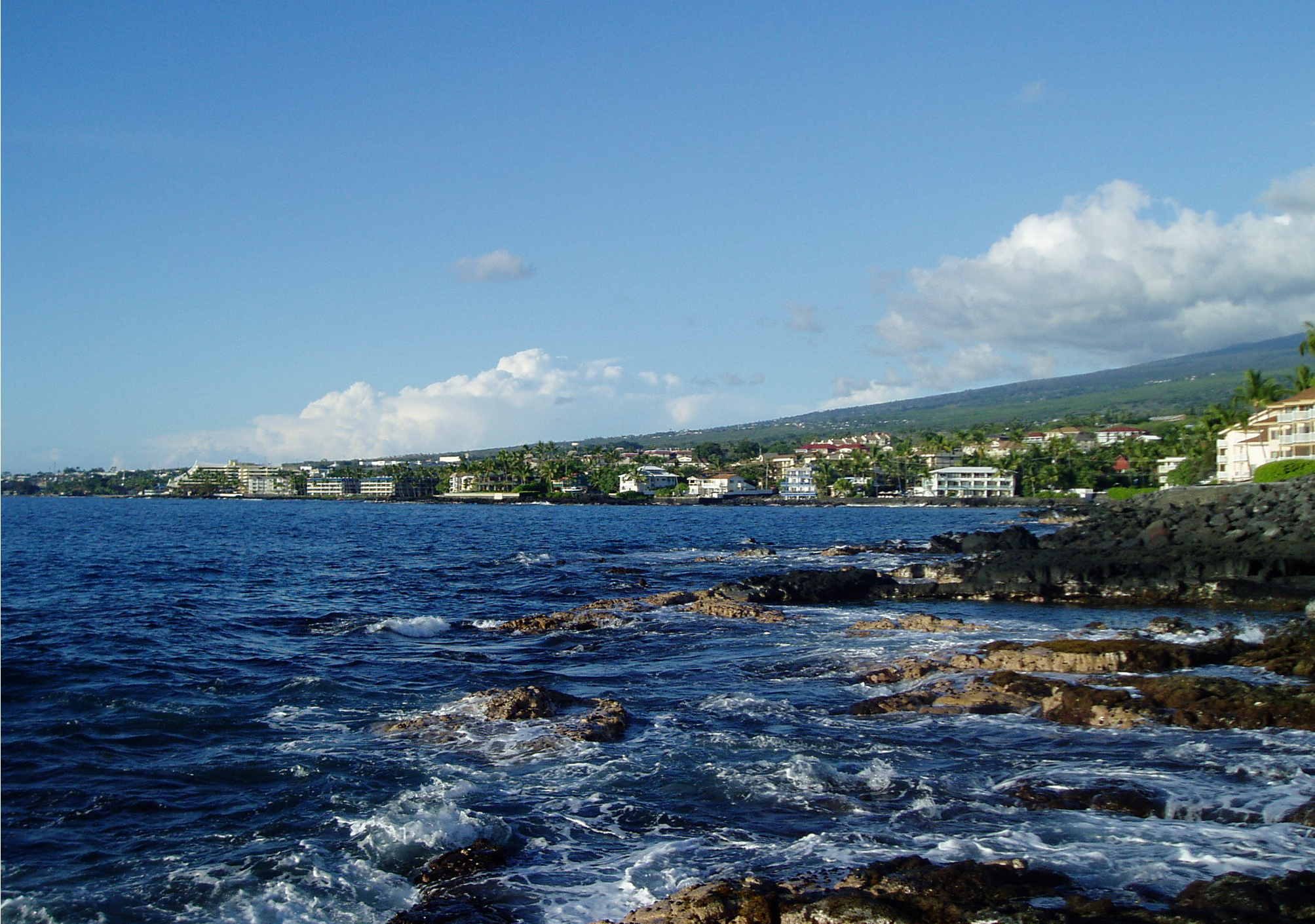 Kailua-Kona and the Kona Coast — on the Big Island of Hawaiʻi. From southern shoreline, facing north.